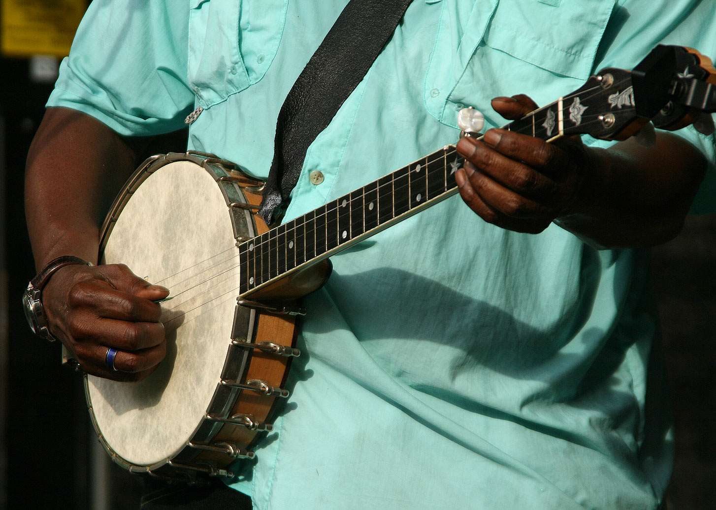 Blues musician Taj Mahal at the Museumsquartier in Vienna (Jazz-Fest Wien)